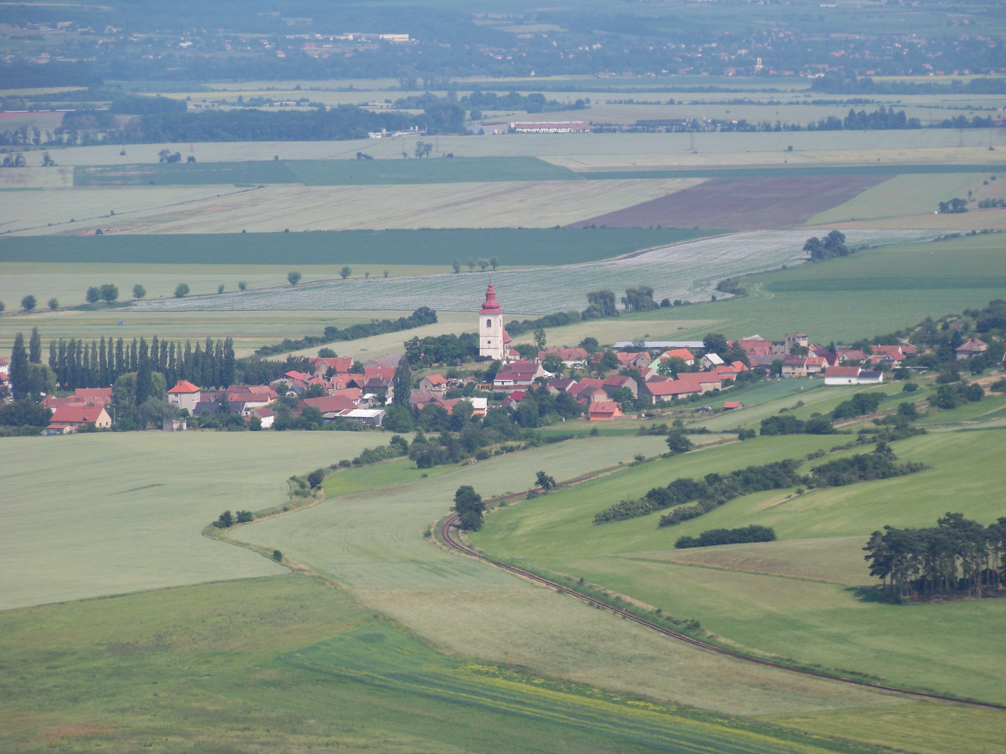 Kostomlaty pod Řípem, Litoměřice District,Ústí nad Labem Region, the Czech Republic. A view from Prague View Point on the Říp Mountain.